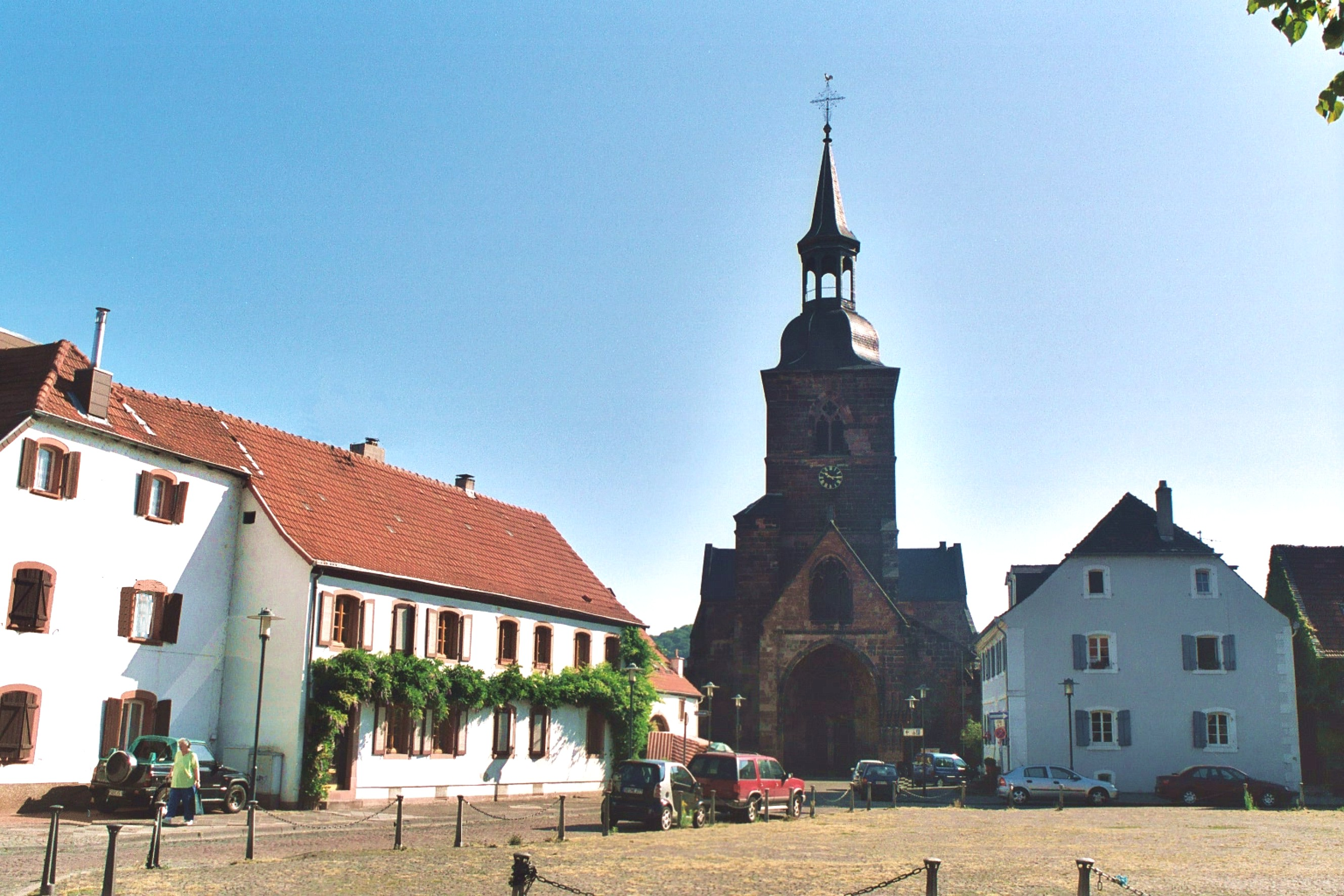 Saarbrücken, the St. Arnualer Markt, shot in 2003